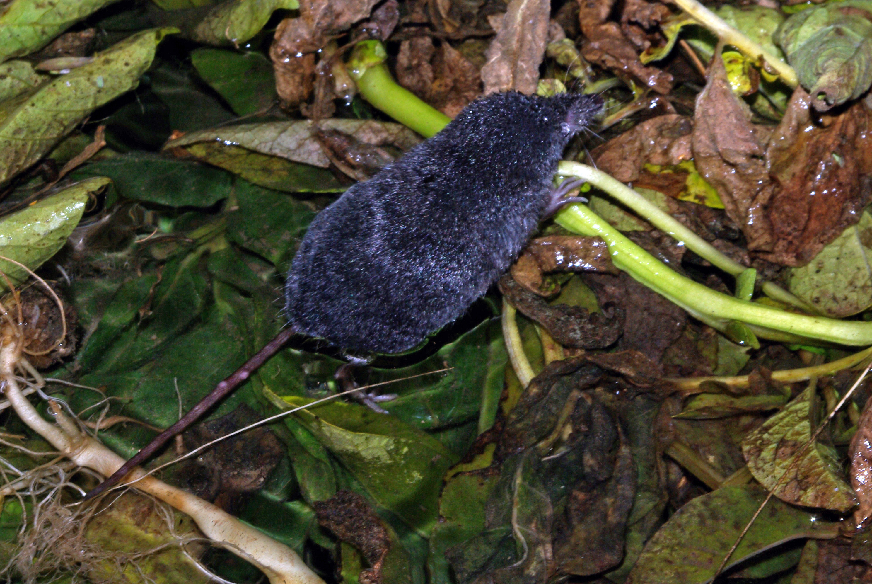 Mediterranean Water Shrew (Neomys anomalus) near Riaño, León (Spain)